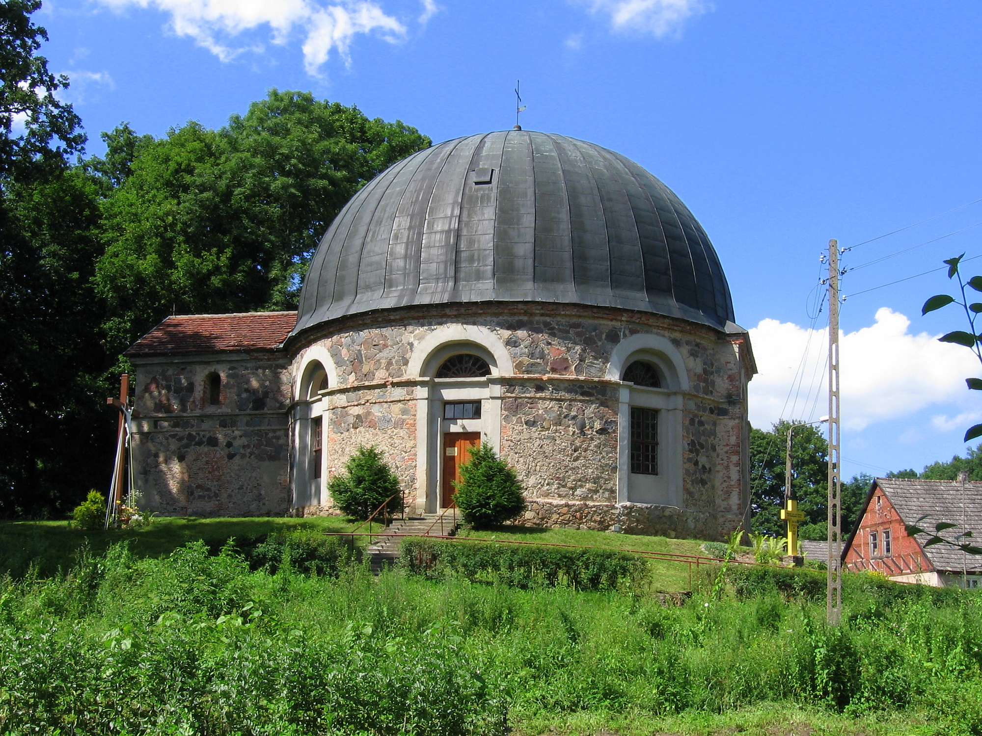 St. Theresa of the Infant Jesus Roman Catholic Church in Gawroniec, Poland, West Pomeranian Voivodship